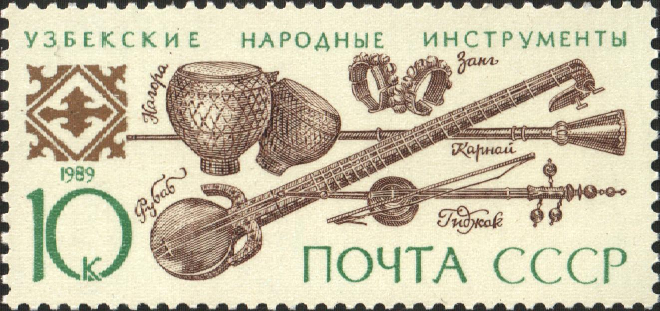 A USSR stamp